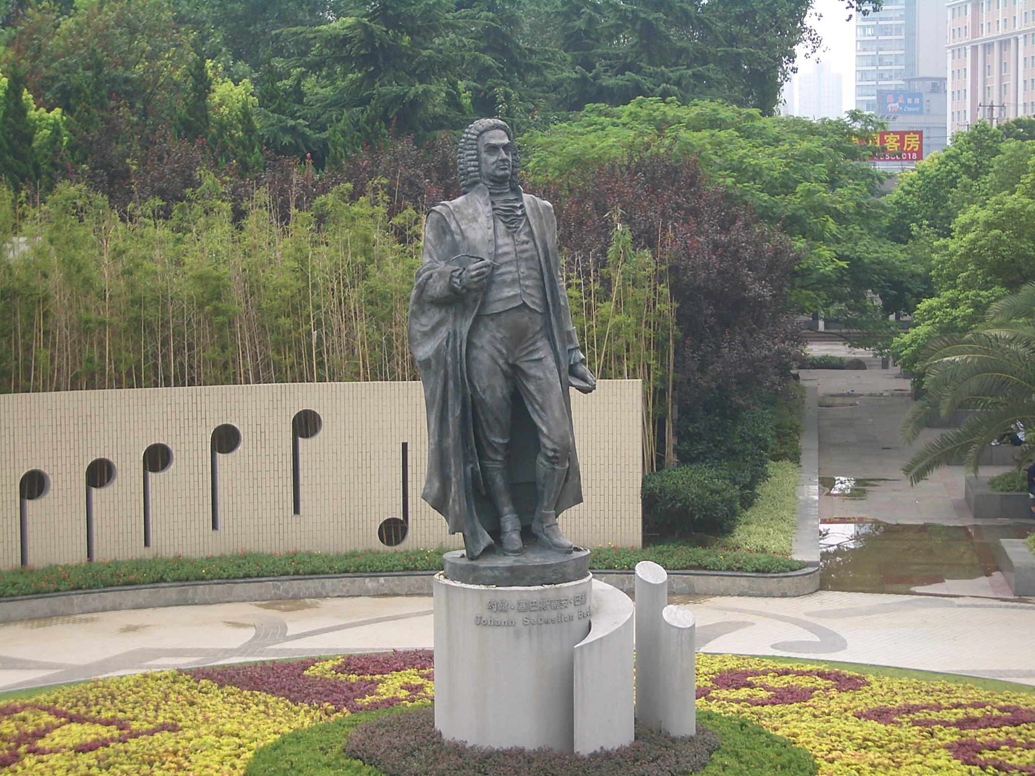 Monument to J.S. Bach in Shanghai